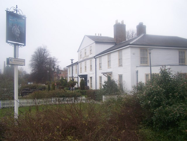 The White Rabbit Pub, Maidstone On junction of Sandling Street and Stacey's Street. Pub and Restaurant.